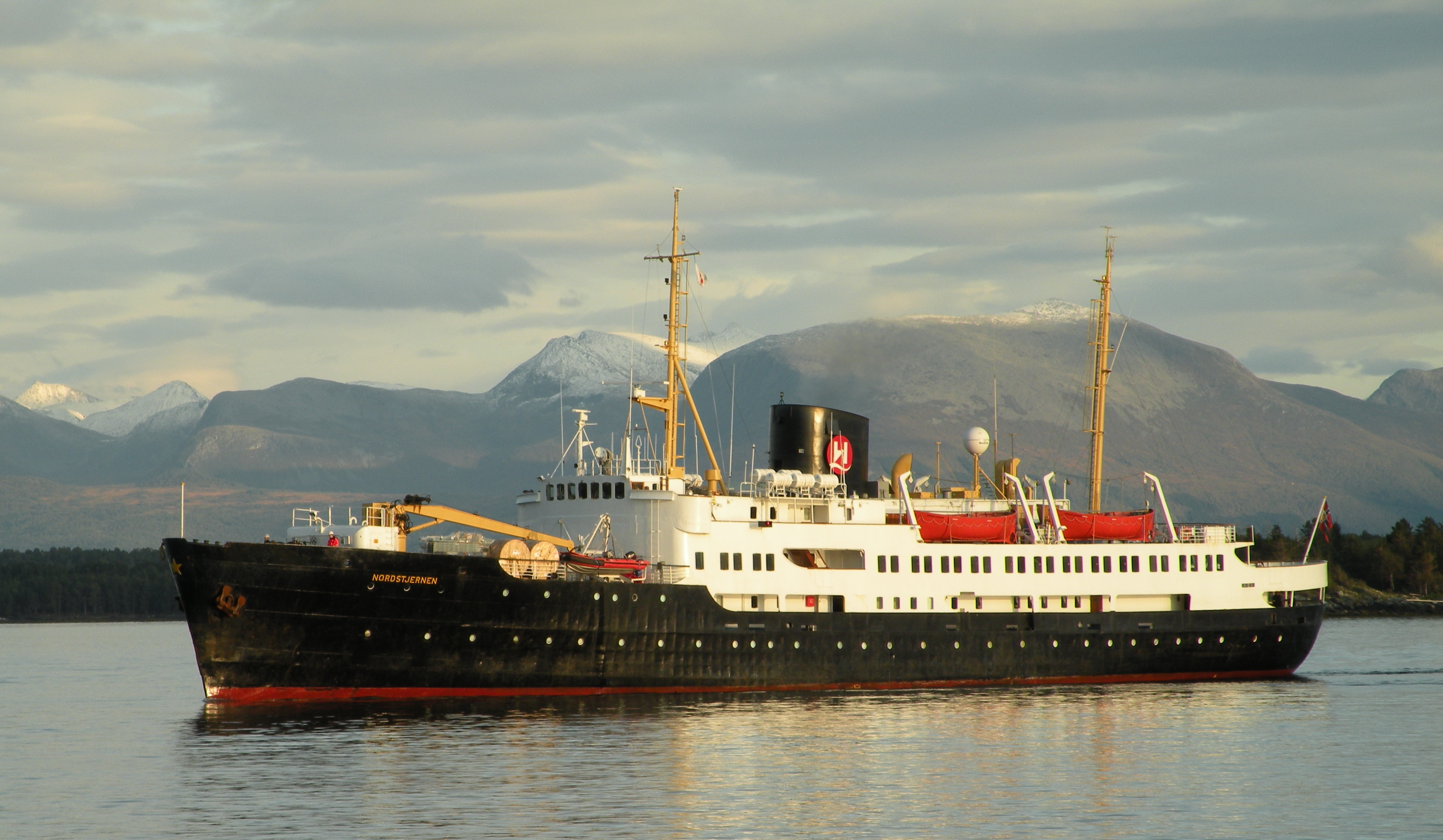 Norwegian coastal express ship (hurtigrute) MS Nordstjernen in Molde.